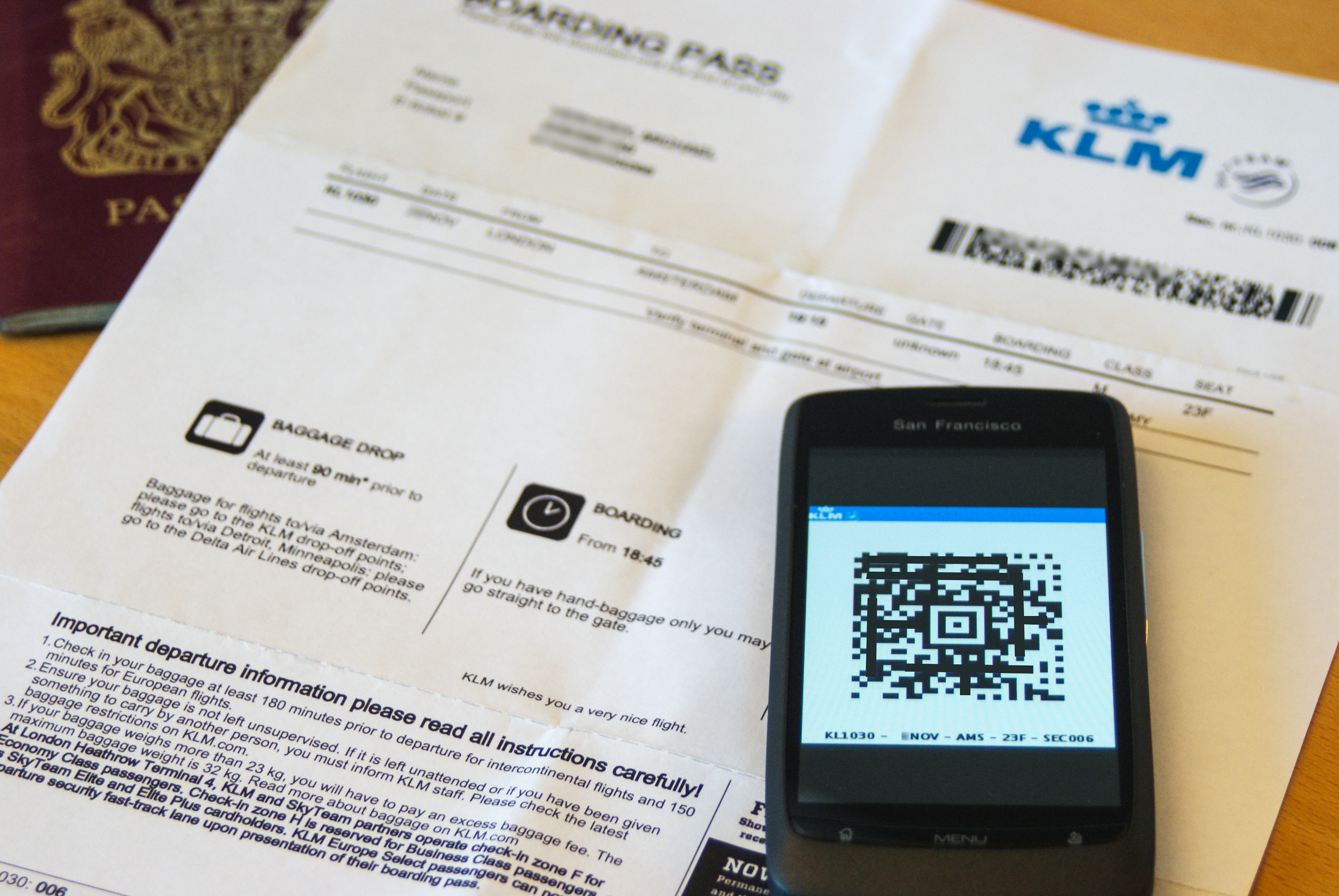 Photo of a mobile boarding pass (a 2D Aztec code bar code on an Orange San Francisco smart phone) on top of a paper boarding pass, printed after online check-in, for a KLM flight. UK passport in the background. I blurred some details on both boarding passes (name, date, ticket number) and I altered the mobile boarding pass by making some rows and columns of the 2D bar code black, trying to ensure that my details cannot be read.